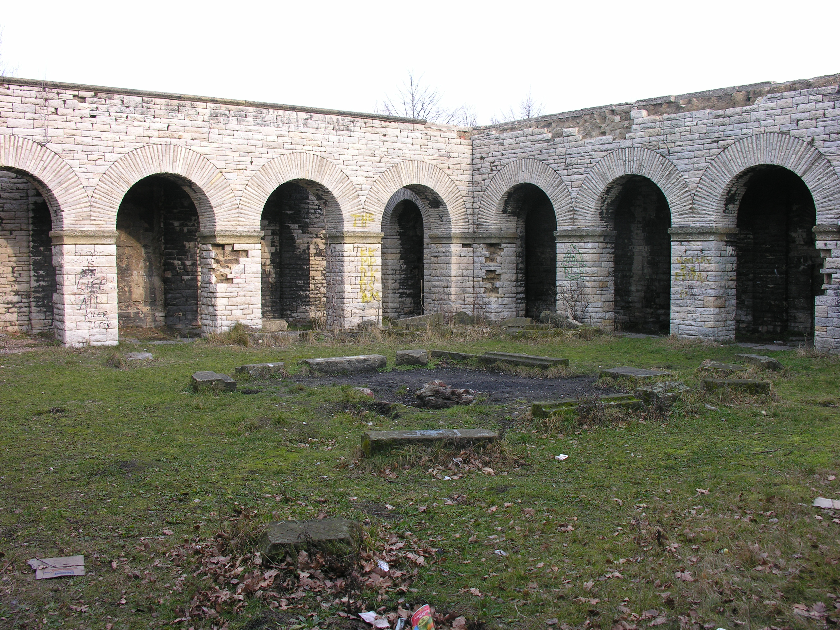 Mauzoleum w Wałbrzychu